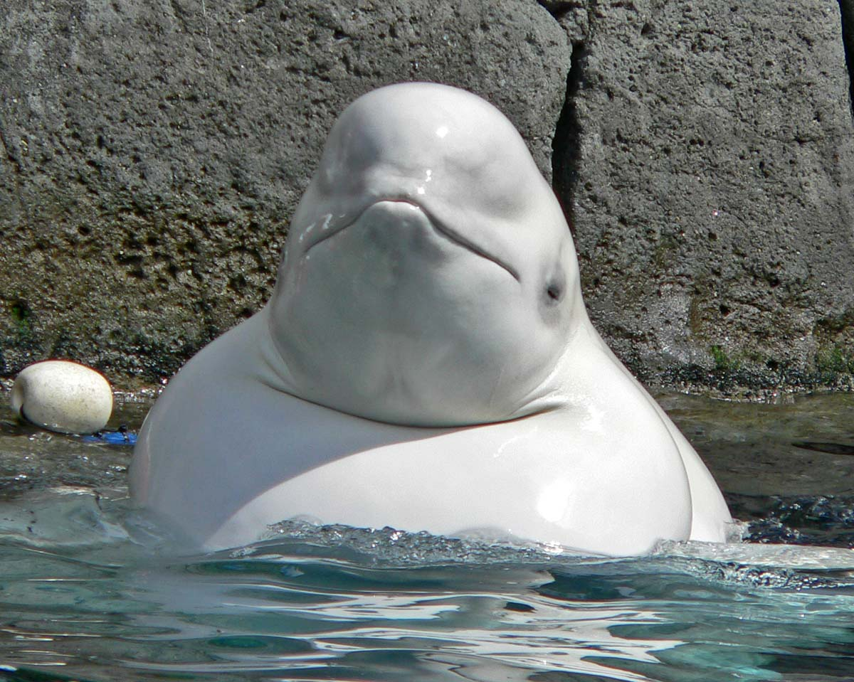 Photo of Delphinapterus leucas (beluga) head at the Vancouver Aquarium